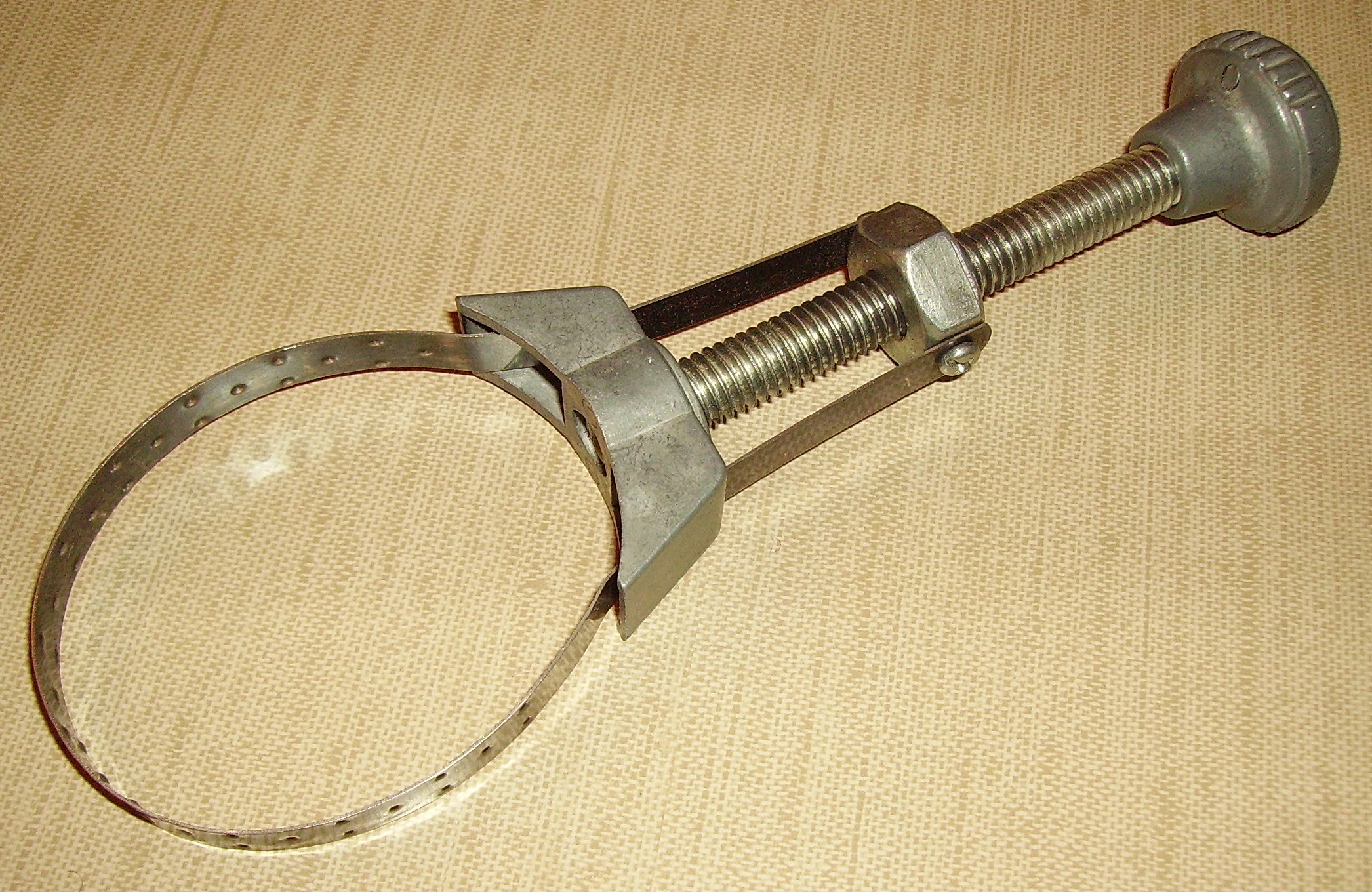 A type of oil-filter wrench.